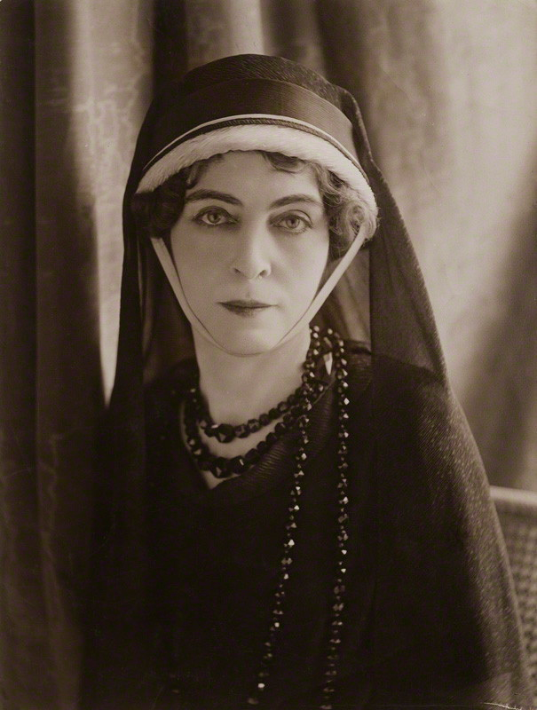 Nevada Stoody Hayes (1885-1941), American socialite who married the Duke of Porto (uncle of King Manuel II, last king of Portugal) in exhile.